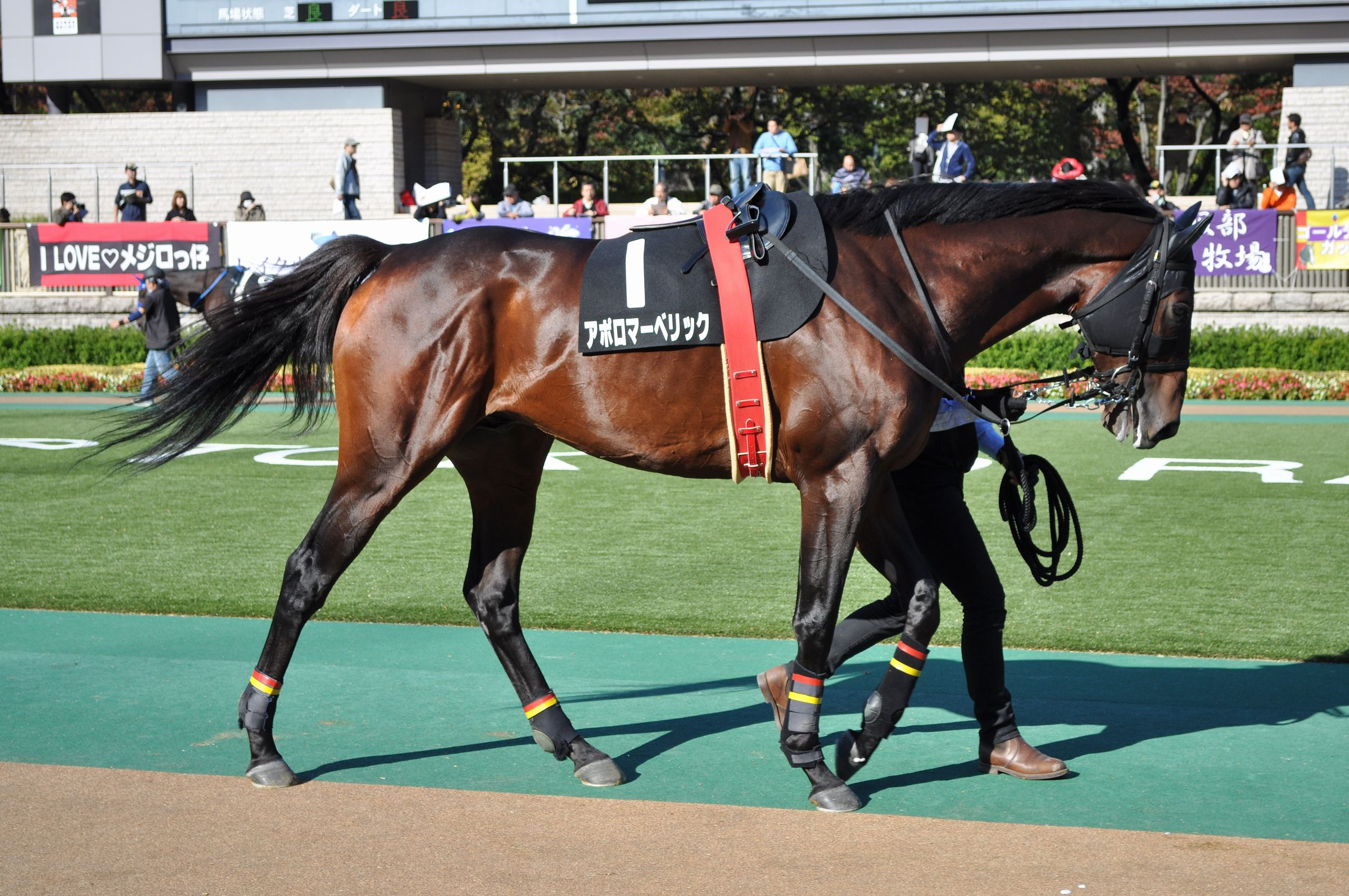 Japanese race horse Apollo Maverick at Tokyo racecourse(Tokyo,Japan).